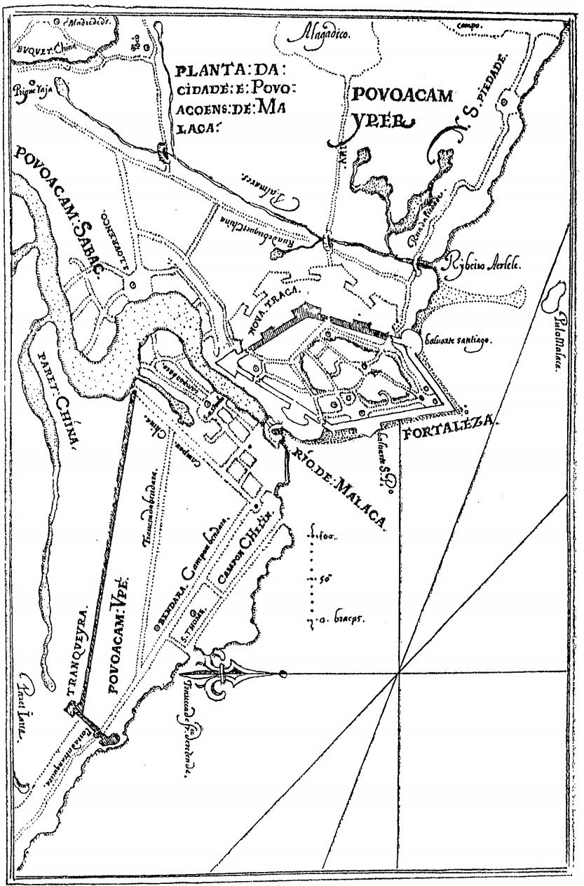 An early 17th century map of the city of Malacca and it's sorrounding area by the Portuguese-Malayan carthographer Manuel Godinho de Herédia